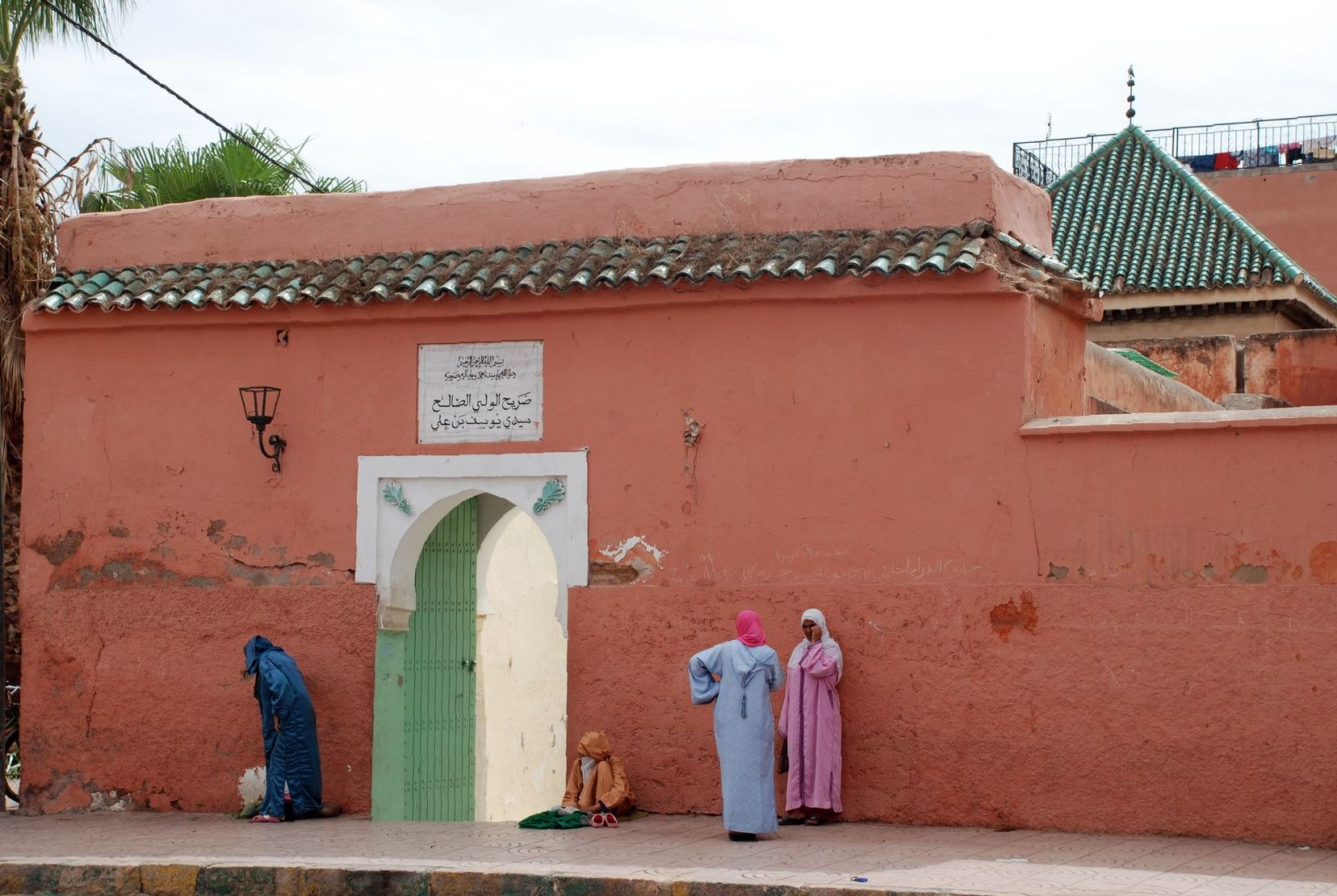 Marrakech, tomb of Yusuf bin Ali as-Sanhagi